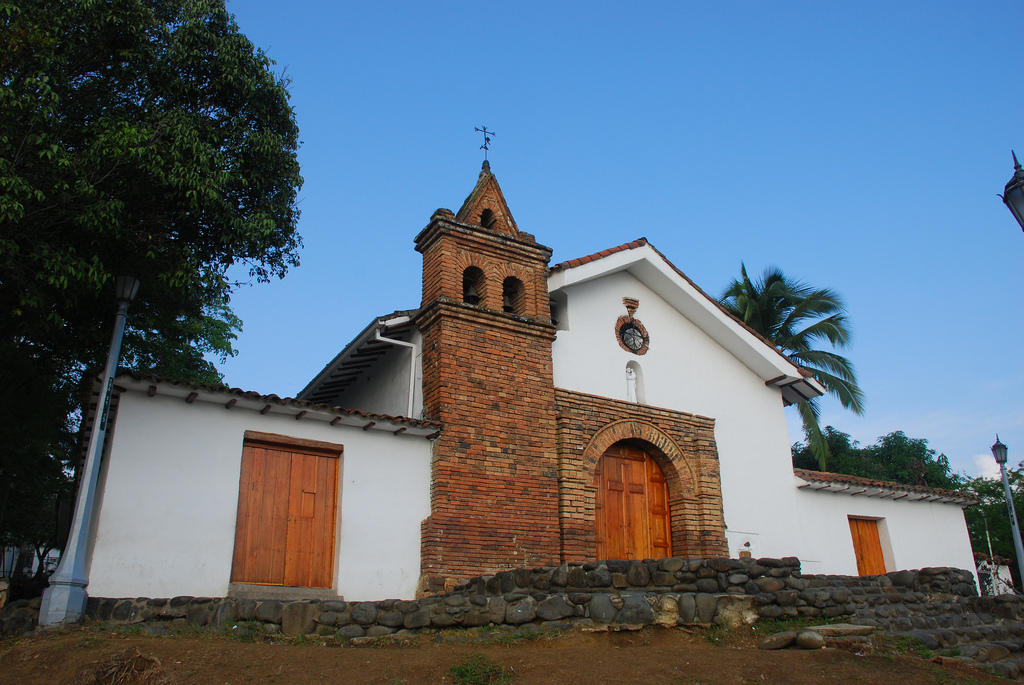 Picture of the San Antonio Church. Made by Mario Carvajal, from flickr.